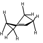 Conformação de meia-cadeira do ciclo-hexeno.